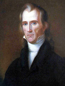 Portrait of Hugh Lawson White, United States senator and president of thre Bank of Tennessee.